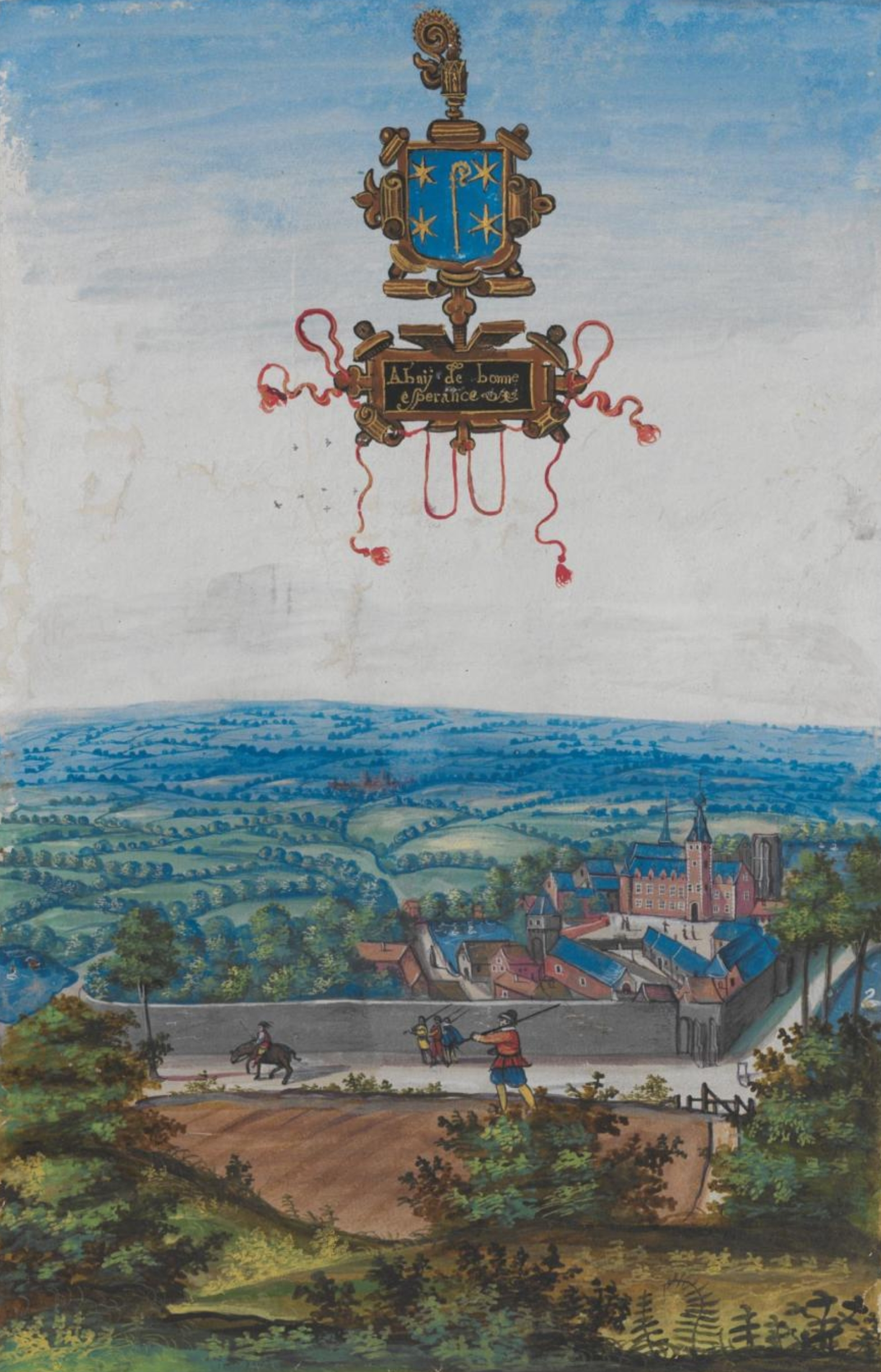 Bonne-Espérance Abbey circa 1600, by Adrien de Montigny (Albums de Croÿ), from Vues et perspectives du Comté de Hainaut, mises en ordre par Palquois de Reigniere, géographe de S.A.R., Brussels, 1754, vol. XII, folio 24 (Austrian National Library).